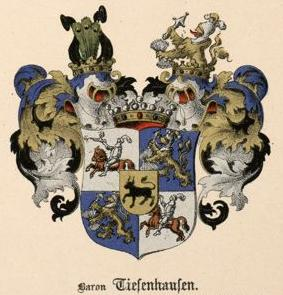 Coat of arms of Tiesenhausen family